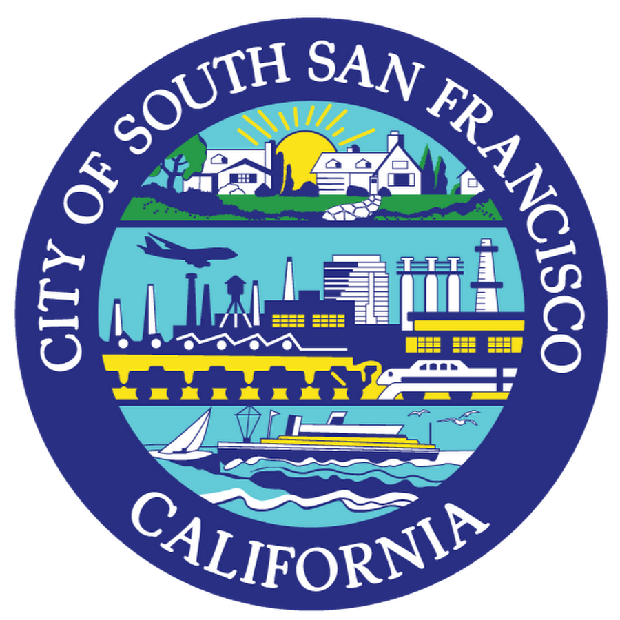 The official seal of the City of South San Francisco, California.